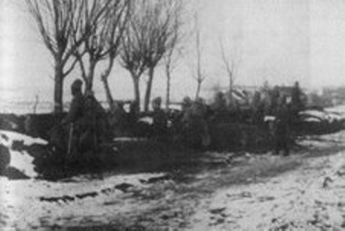 A photo of the troops of Ukrainian Zaporizhya division at their battle positions